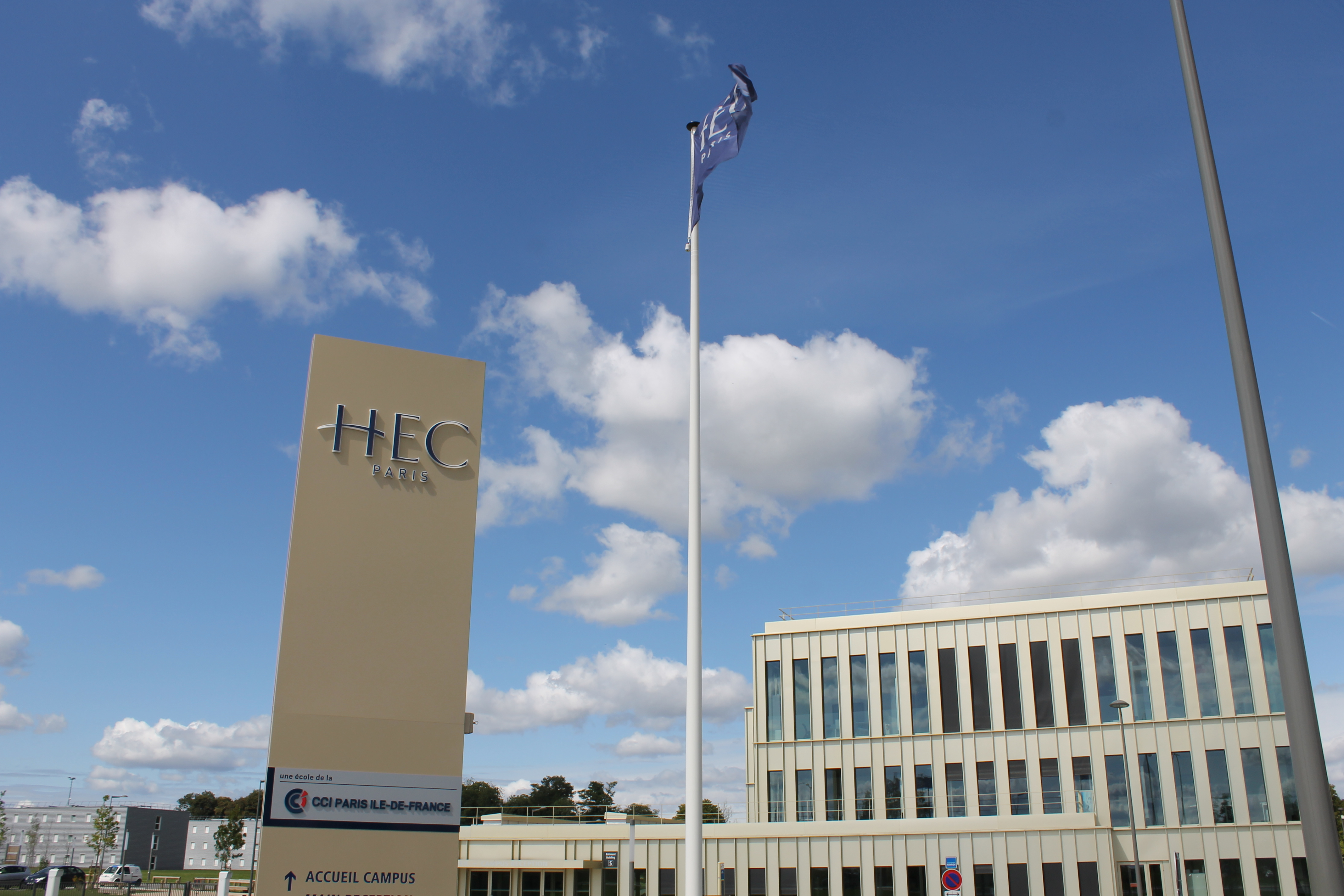 The main entrance of the HEC Paris' campus in Paris-Saclay (Jouy-en-Josas, Essonne).